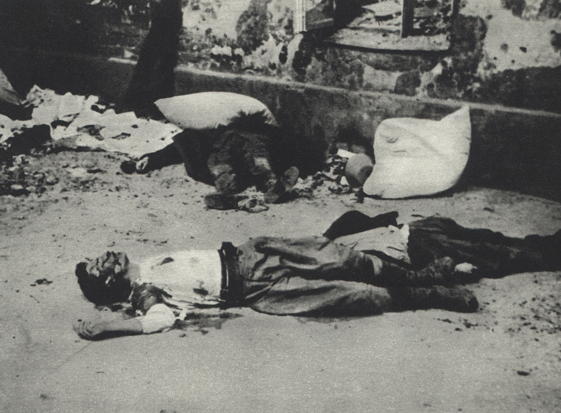 Warsaw insurgents executed by German troops. Photo taken on 23 September 1944. This photo comes from so-called “Mensebach Album”. After the end of war this album was found and taken over by the Polish authorities. It is now in the archives of the Western Institiue (“Instytut Zachodni”) in Poznań.